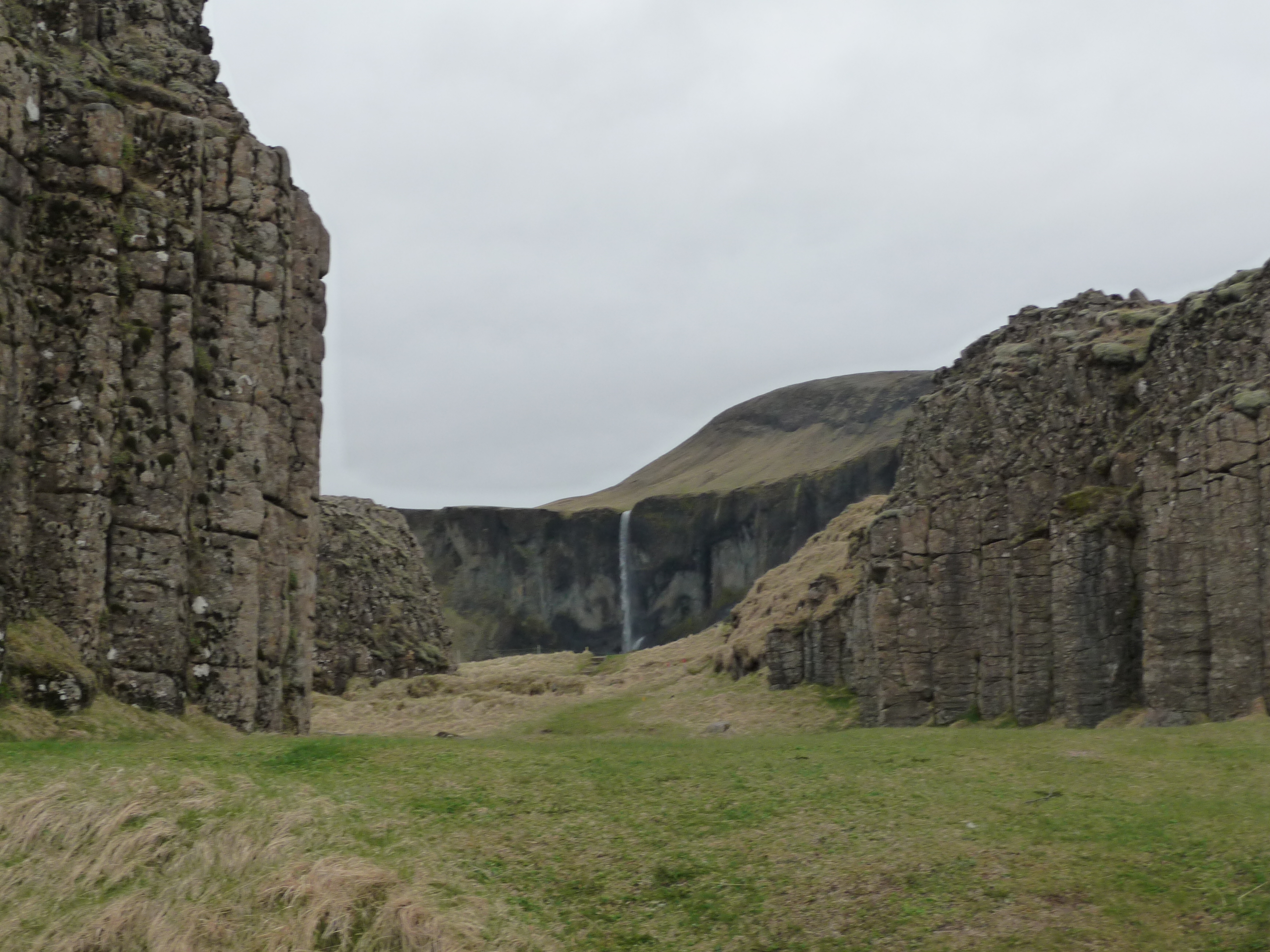 The Dverghamrar ("Dwarves' cliffs") basalt cliffs are located east of the village of Kirkjubæjarklaustur in the Skaftárhreppur municipality of southern Iceland. They are a protected national monument. The Foss á Síðu waterfall can been seen in the background.